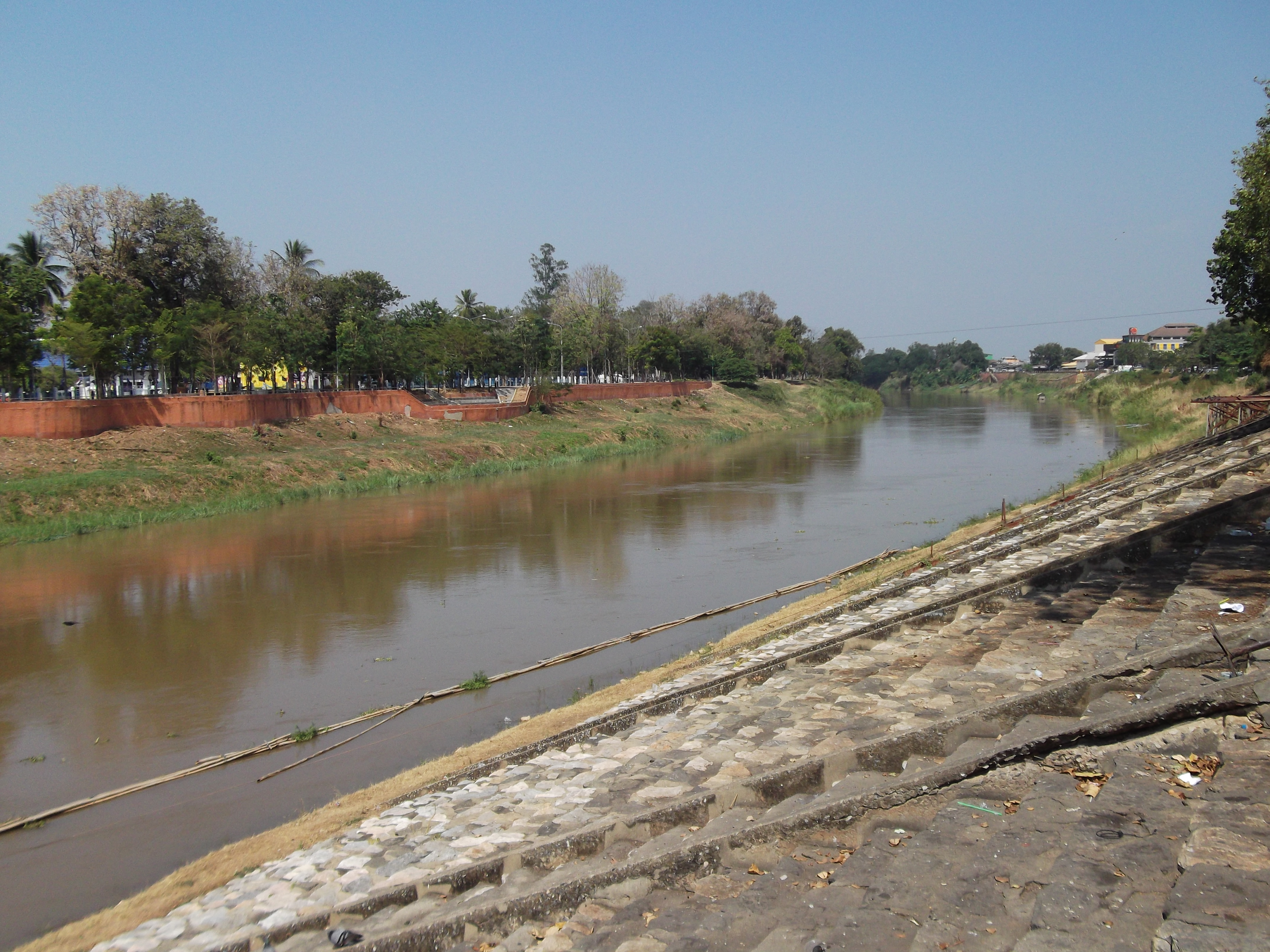 Nan River, Phitsanulok